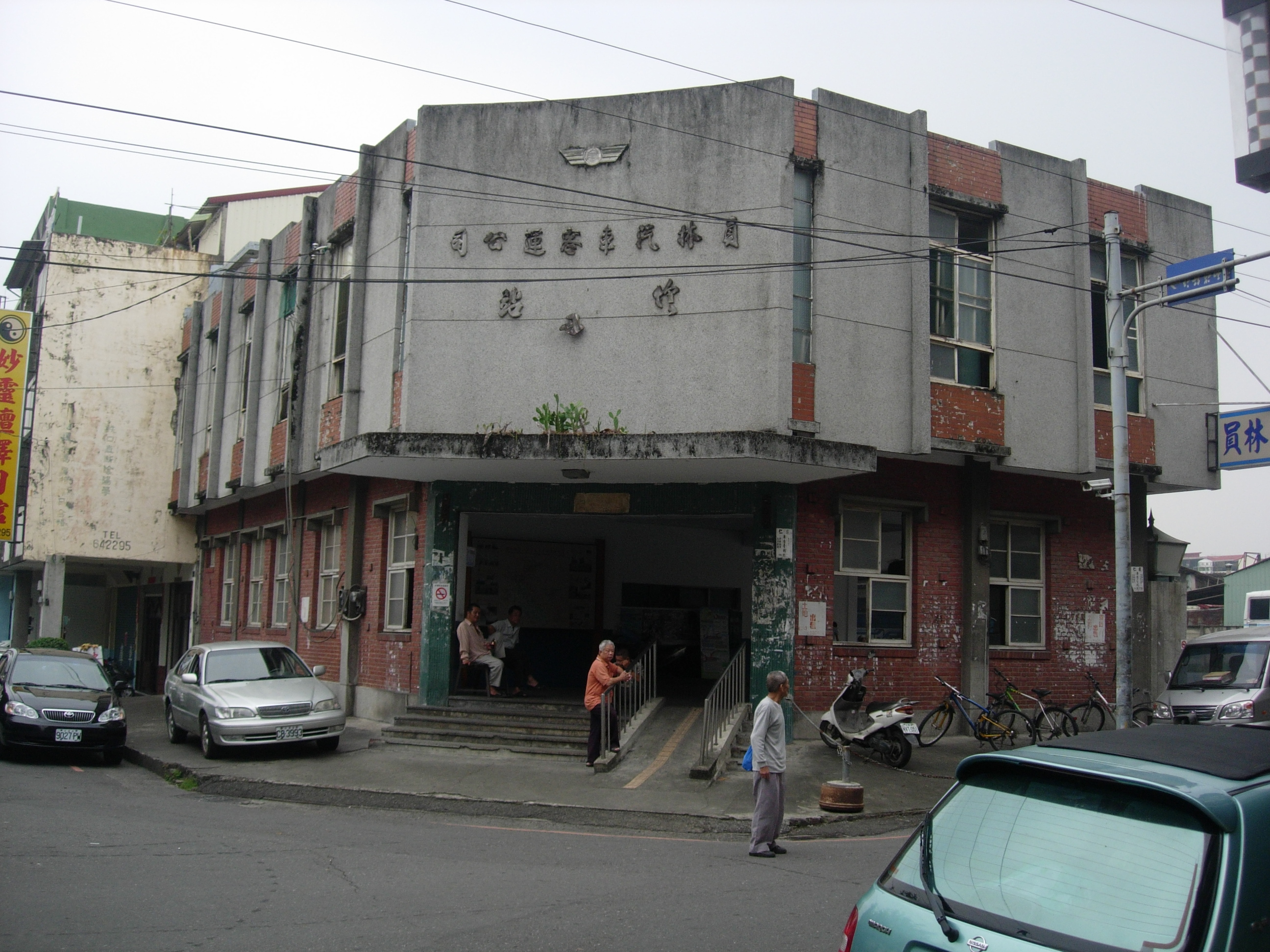 Yuanlin Bus Chushan Station